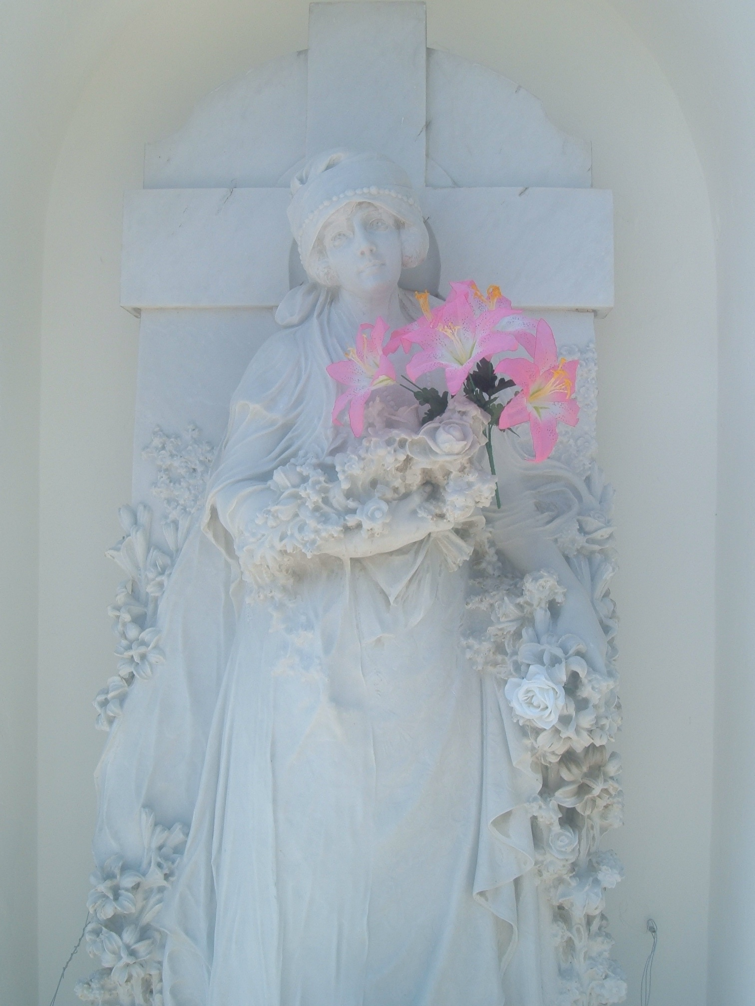 A statue of a bride in Cementerio de los Ilustres in San Salvador, El Salvador. According to the story she died just moments after her marriage in the early 1900's.